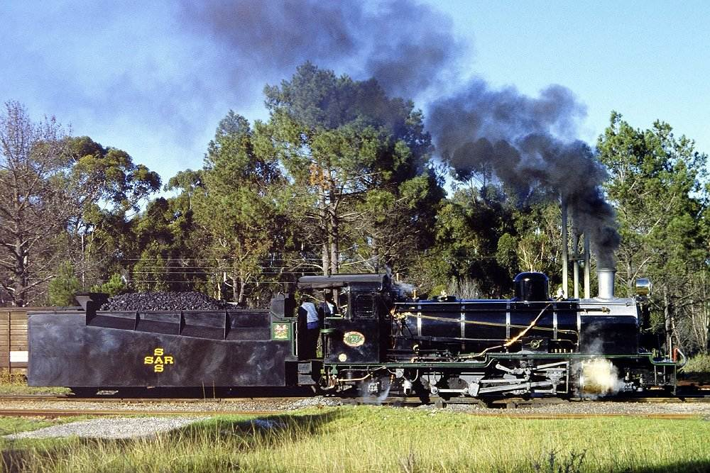 SAR class NG15 at Van Stadens Station, South Africa. The Number of the loco shown is NG 124